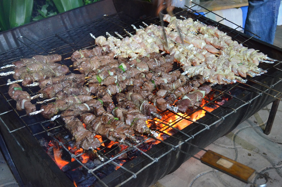 This is an image of food from Burundi